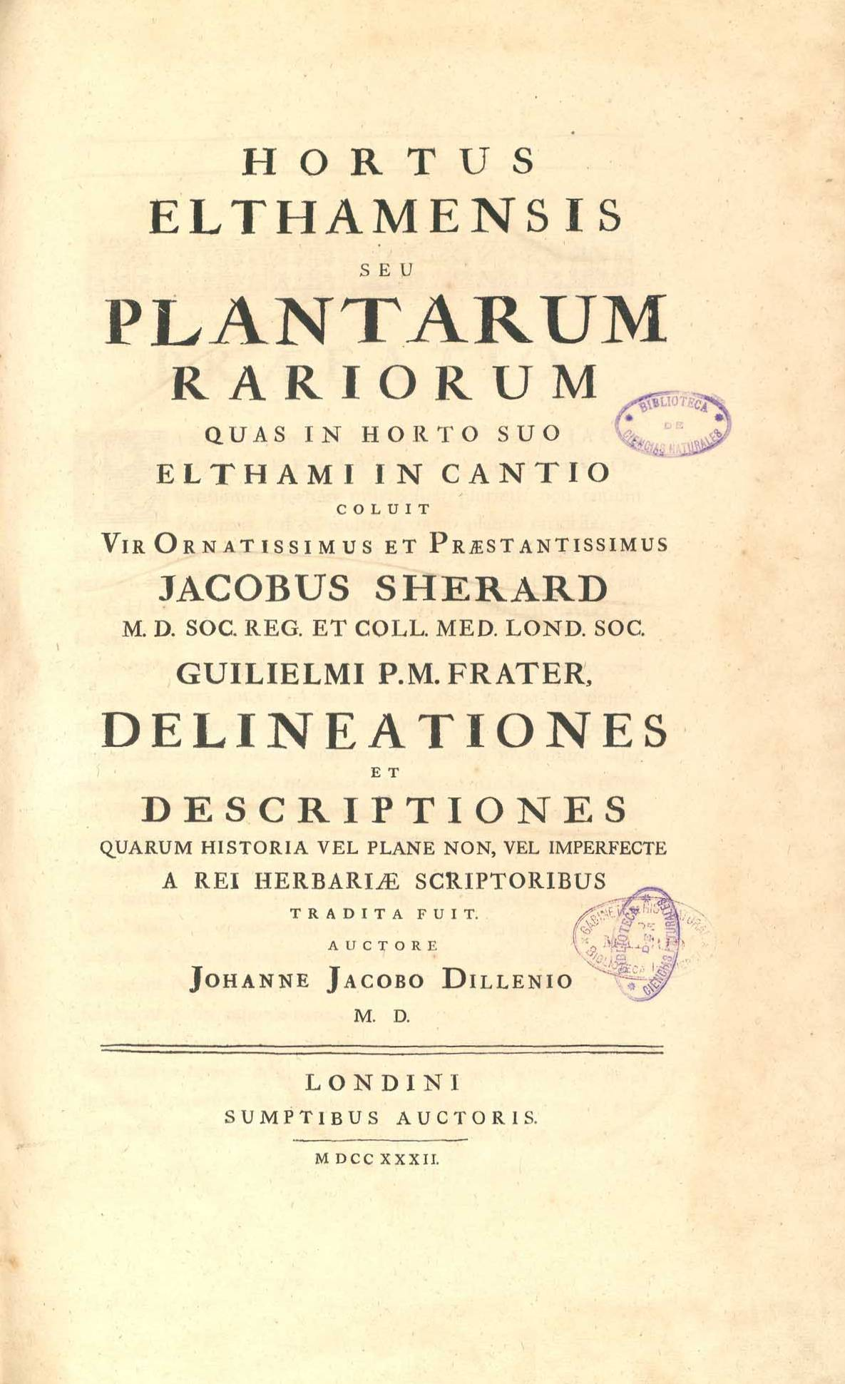 Dillenius, J.J. (1732), Hortus Elthamensis title page, explaining this book contains figures and descriptions of the rare plants that James Sherard and his brother William grow in the Eltham garden, and which until then are not at all or only imperfectly known to botanical authors.